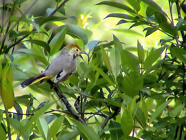 Chestnut-tailed Minla (Minla strigula) in Kullu District of Himachal Pradesh, India.